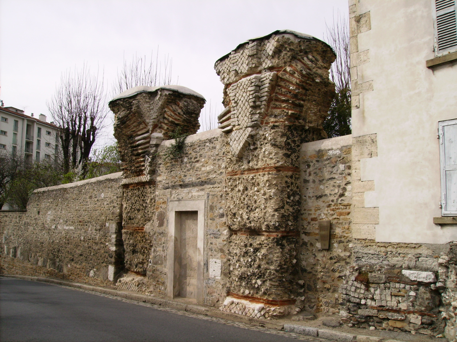 The Gier Aqueduct in Lyon Fourvière